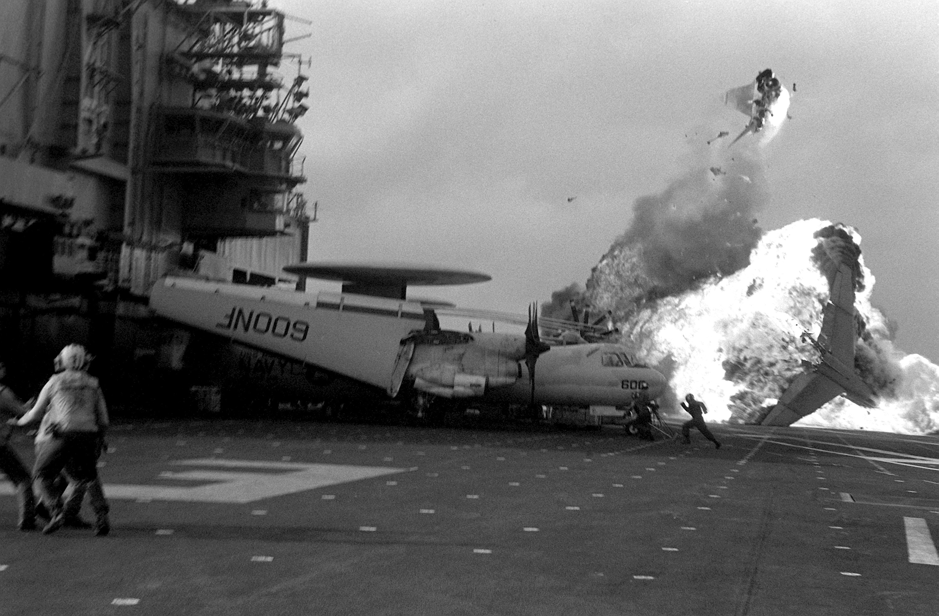 A U.S. Navy LTV A-7E Corsair II aircraft (BuNo 157495) of attack squadron VA-56 Champions bursts into flames after a ramp strike on the aircraft carrier USS Midway (CV-41), on 21 August 1984. The Pilot was killed. In the foreground is a Grumman E-2B Hawkeye of airborne early warning squadron VAW-115 Liberty Bells.